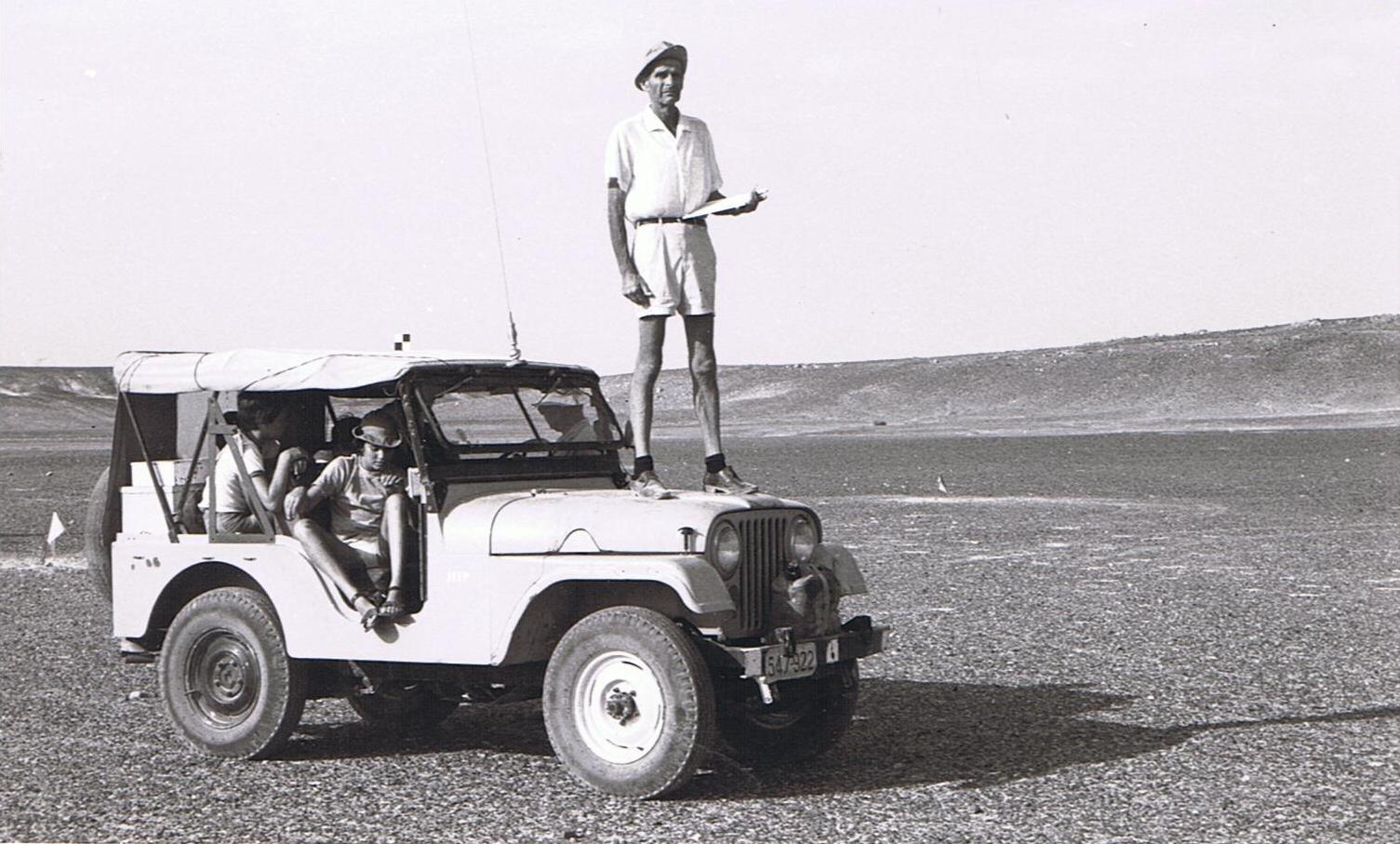 Jenka Ratner (17 August 1909 - March 25, 1979) was an Israeli engineer and inventor, founder of the science force, was received twice Israel Defense Prize